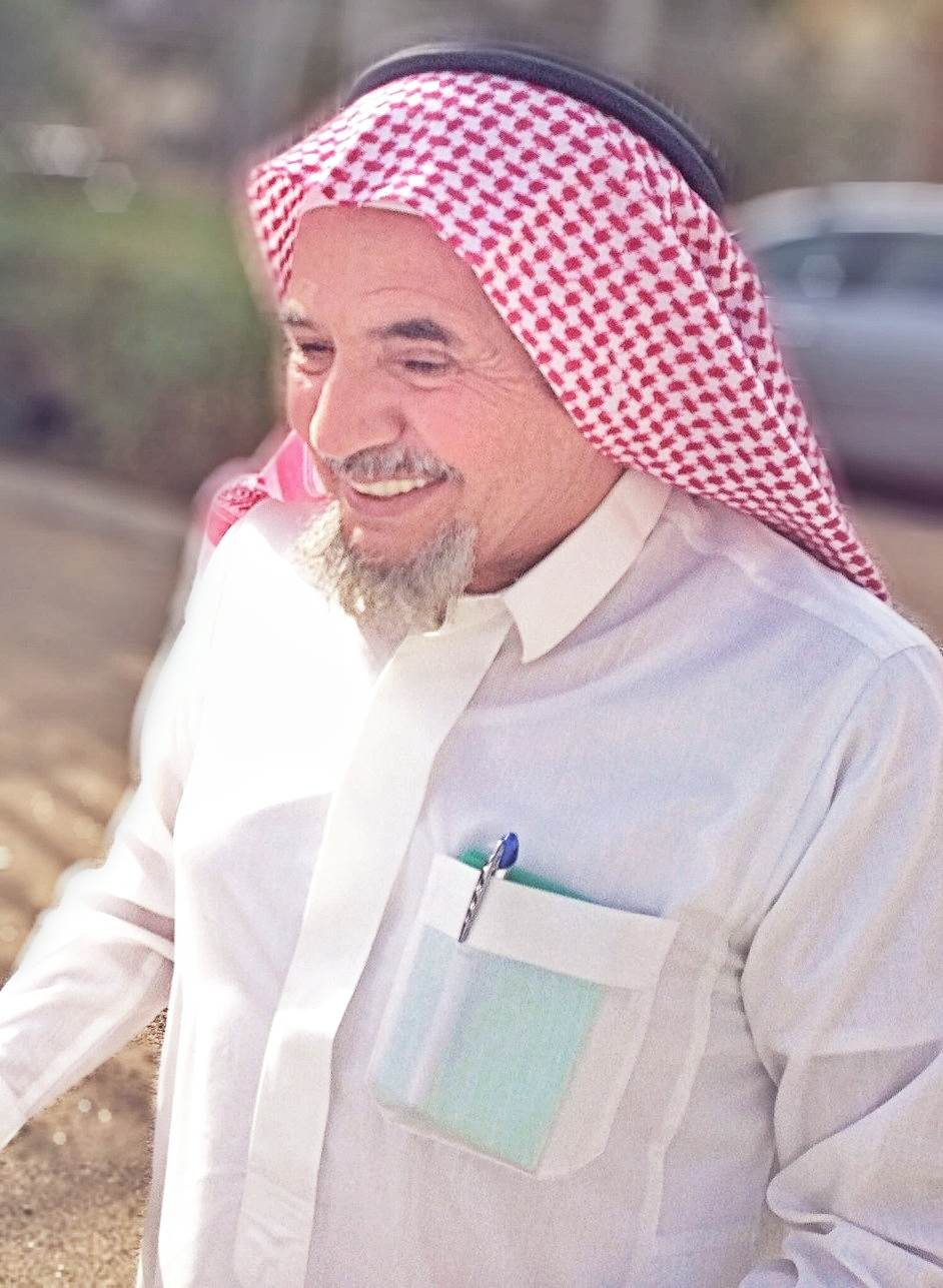 Activist Abdullah al-Hamid right before announcing verdict.